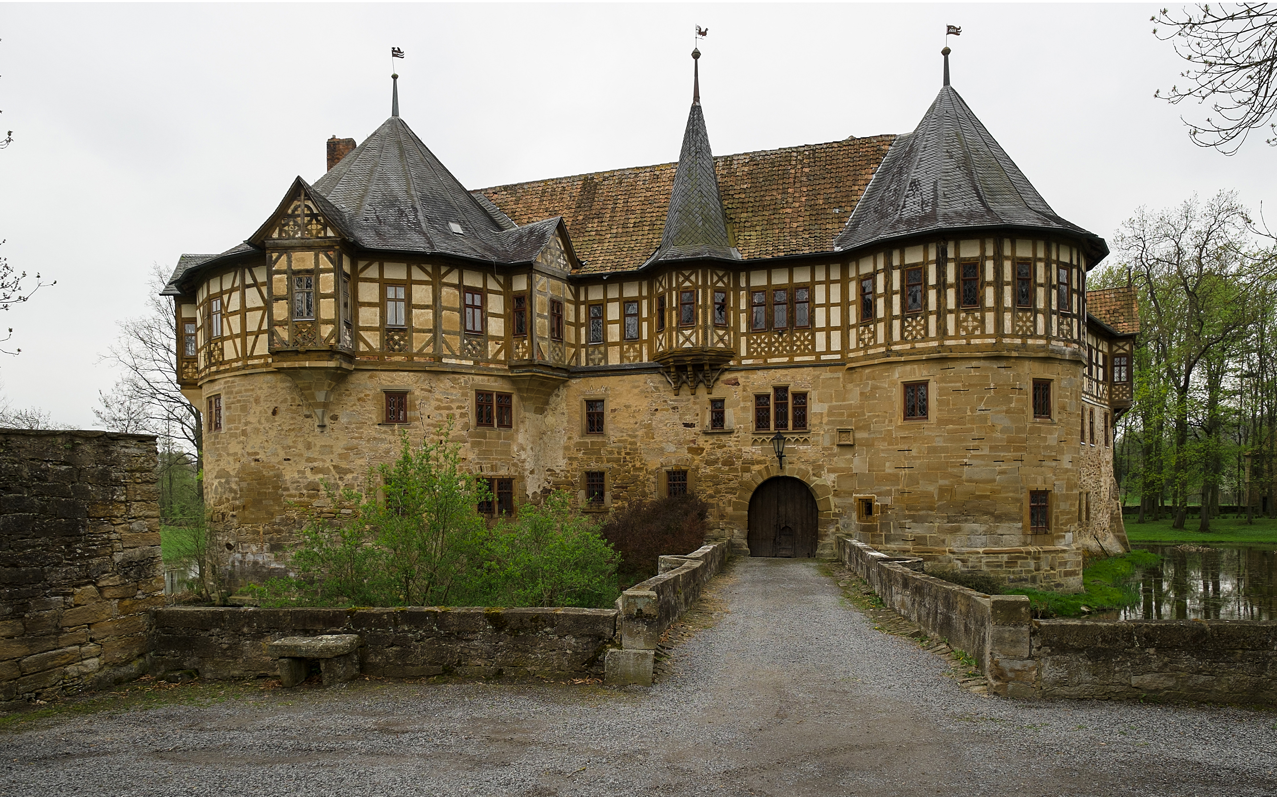 Moated castle Irmelshausen, Höchheim-Irmelshausen, county Rhön-Grabfeld, Lower Franconia, Bavaria, Germany